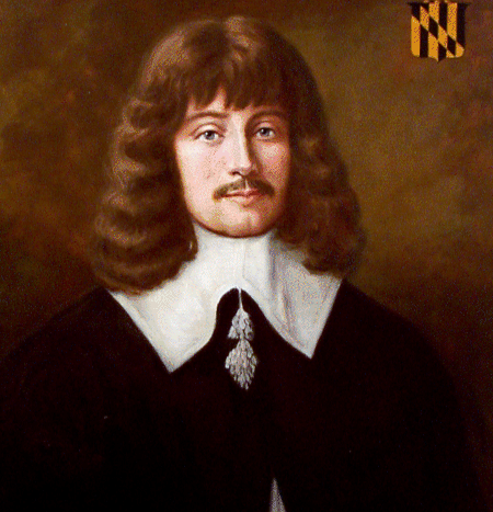 Leonard Calvert (1606-June 9, 1647)